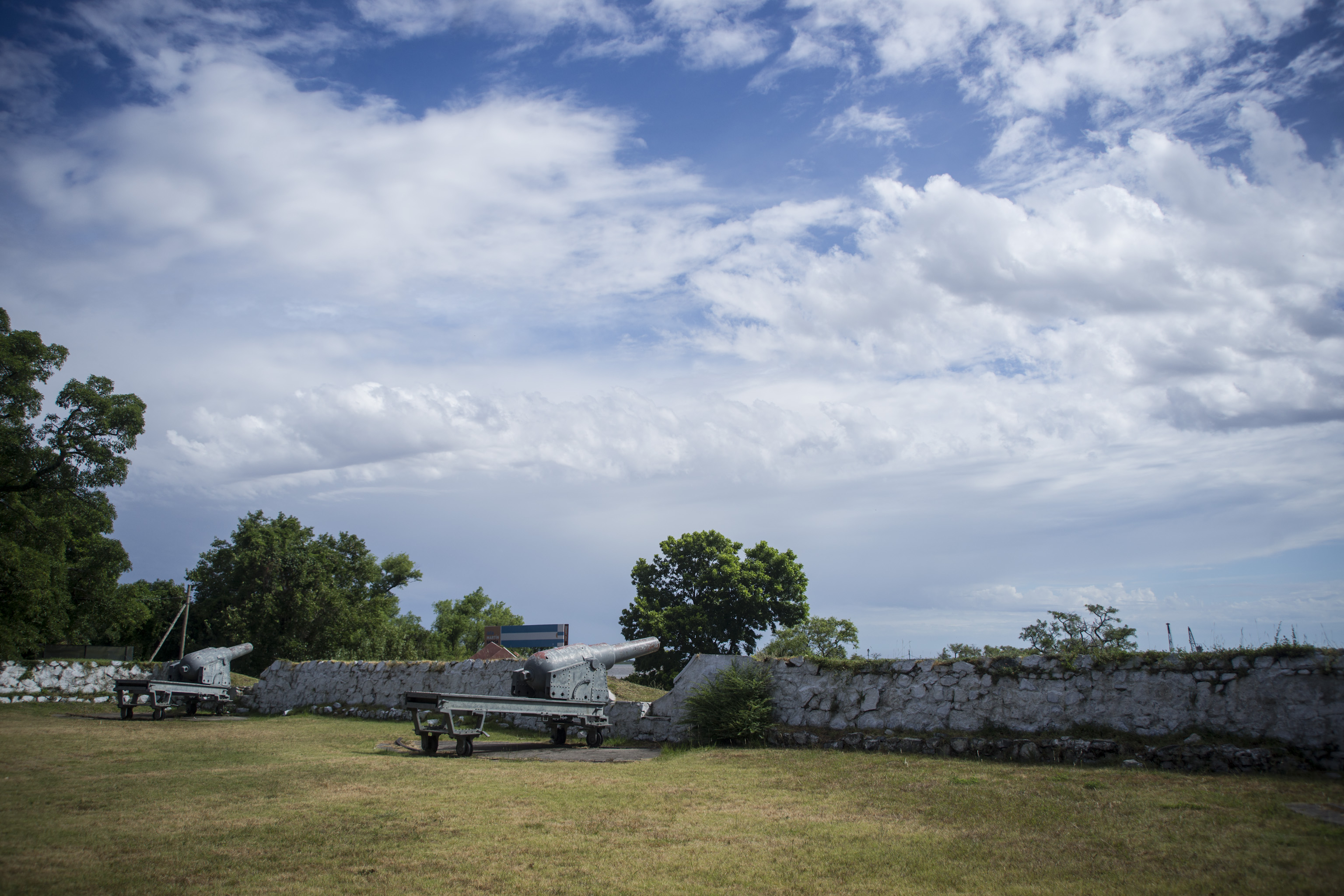 Se cumplen 500 años del “descubrimiento” de la isla Martín García.